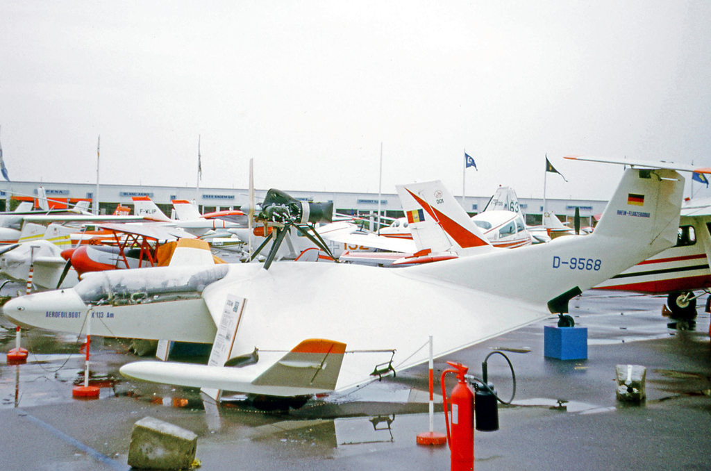 RFB X113 AM Aerofoil Boat D-9568 exhibited at the 1973 Paris Air Salon